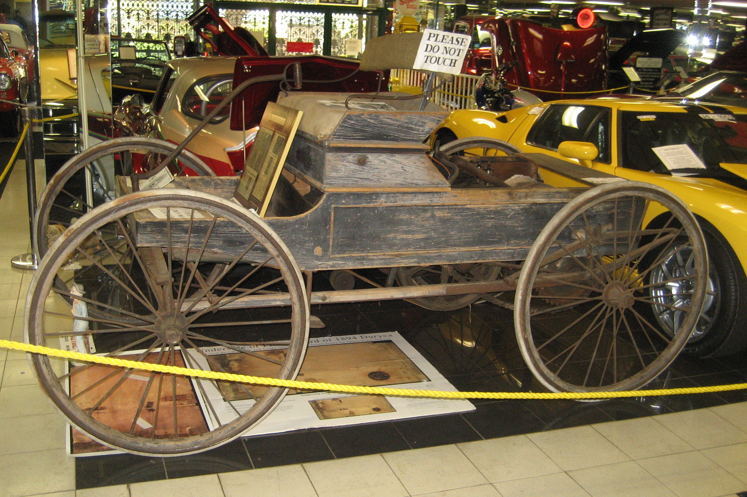 1894 Duryea horseless carriage, on display at Tallahassee Automobile Museum. Side view.